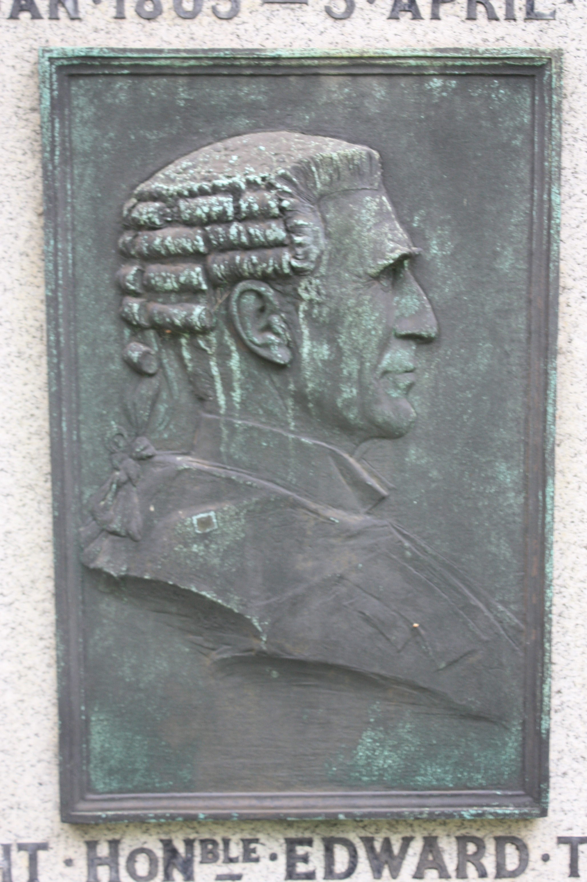 Edward Theodore Salvesen by Henry Snell Gamley, Dean Cemetery